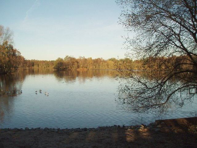 South End of Shakerley Mere. Near to cross roads of B5082 & B5081 .